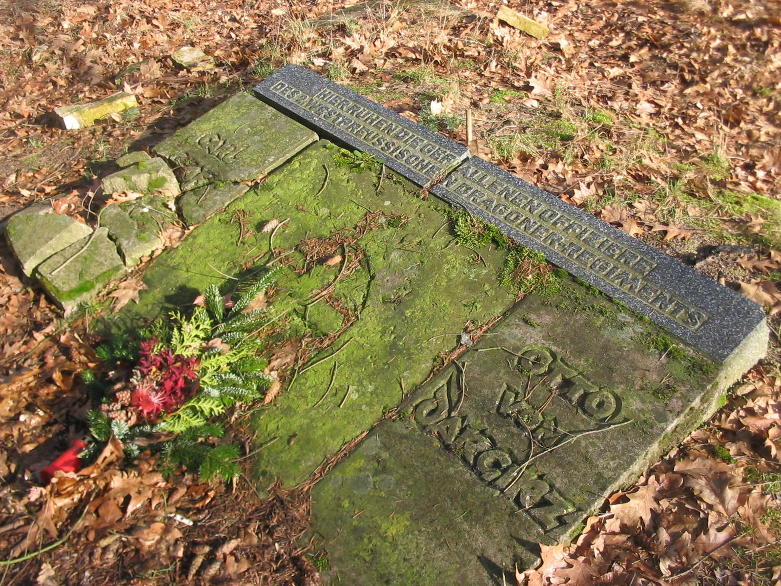 Grave for prussian dragoons, killed in action one day before the Battle of Großbeeren nearby Kerzendorf. Kerzendorf is a part of Ludwigsfelde in the district Teltow-Fläming, state Brandenburg, Germany.